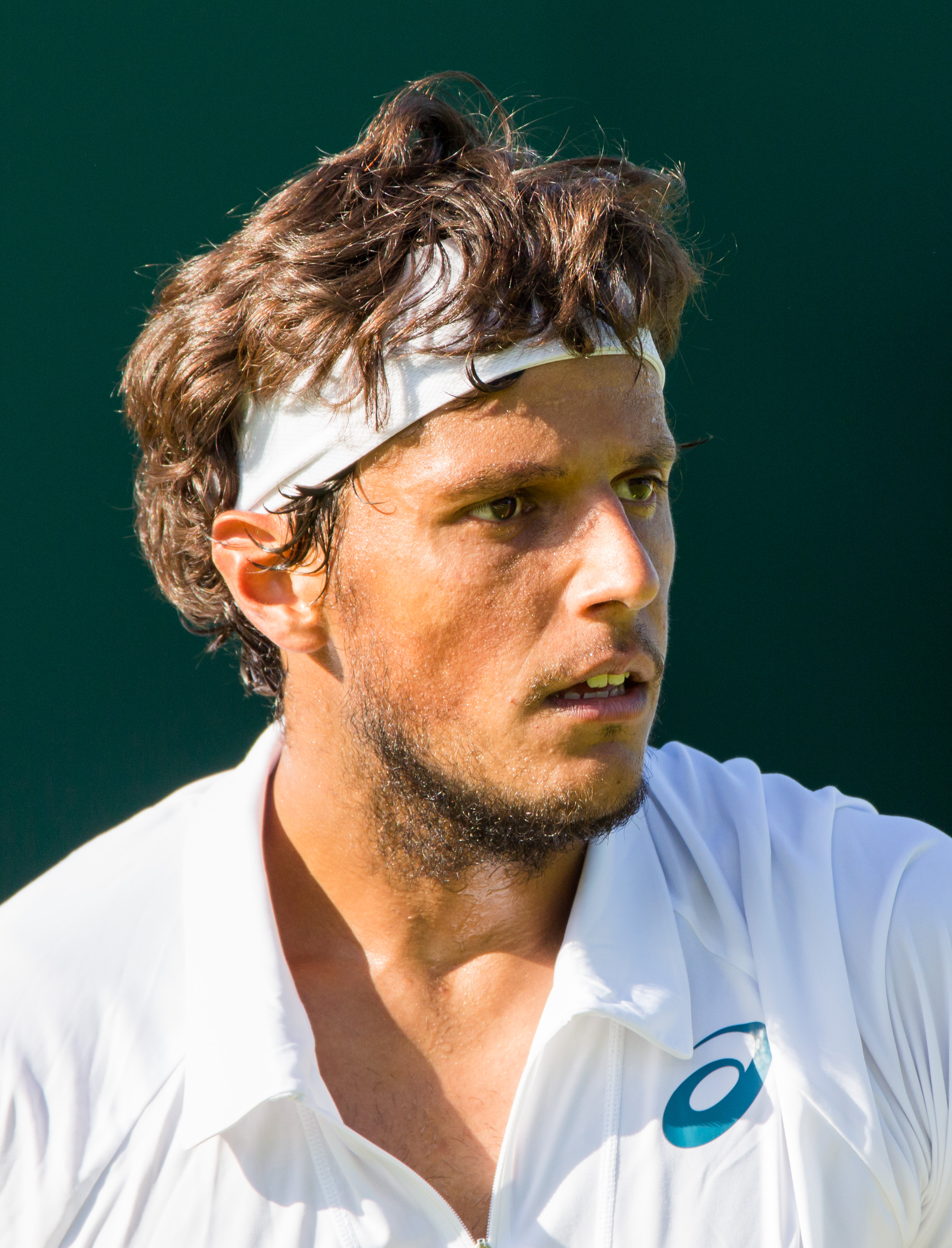 João Souza competing in the first round of the 2015 Wimbledon Championships.